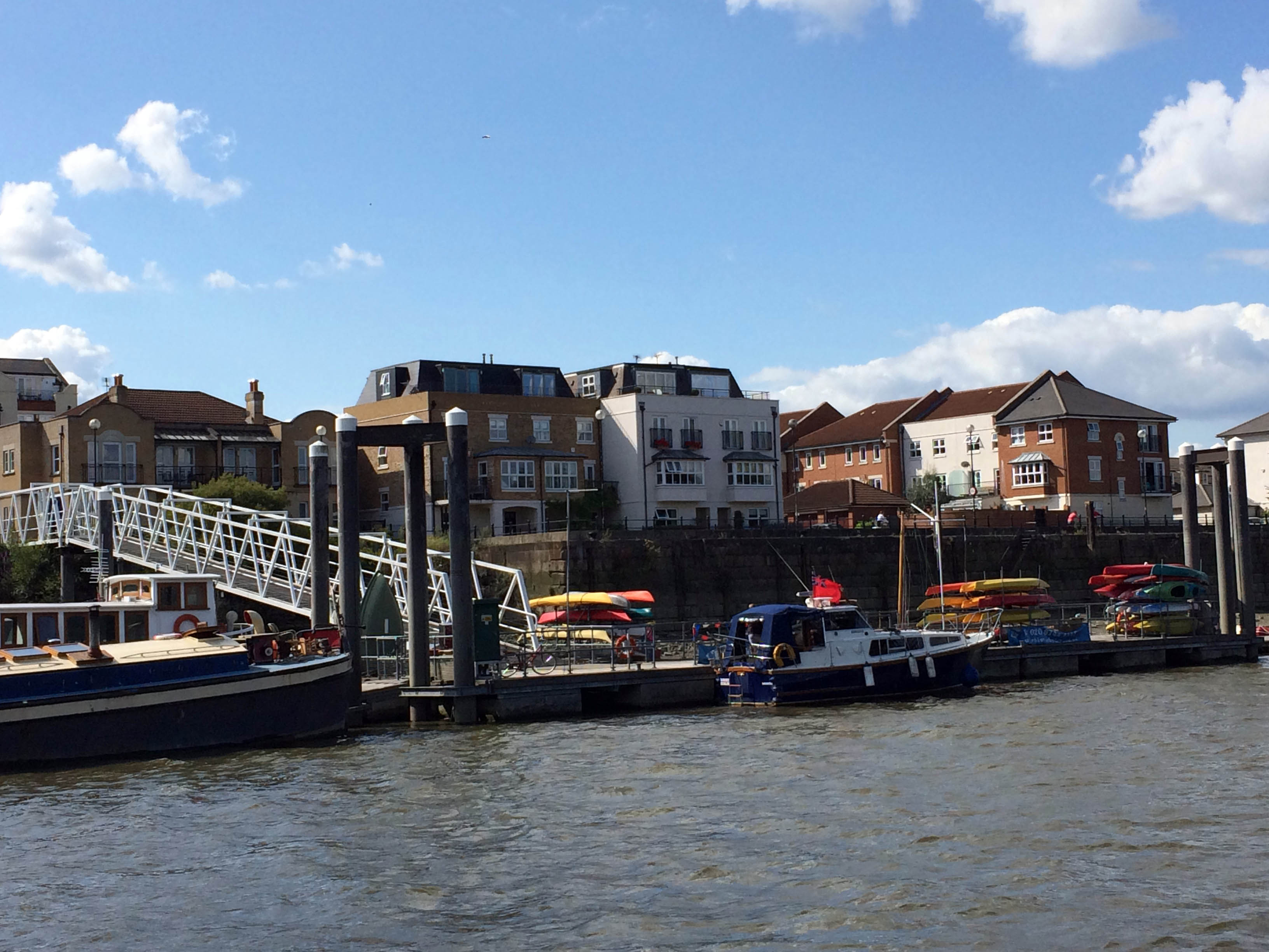 Chiswick Pier on the River Thames in London